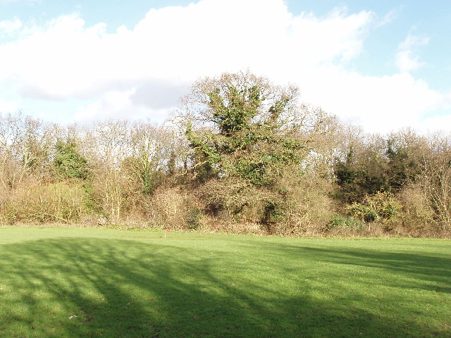 Hounslow Heath Golf Course. Looking north-east, near a bridge over the River Crane on the edge of the golf course.